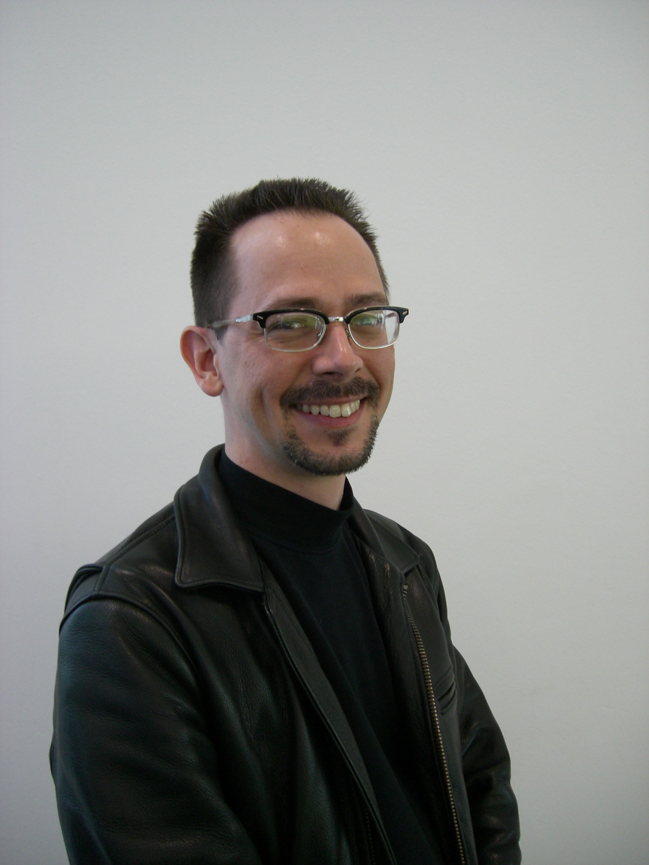 Jesse James Garrett (creator of the term AJAX) at the Web 2.0 Kongress 2007 in Mainz/Germany